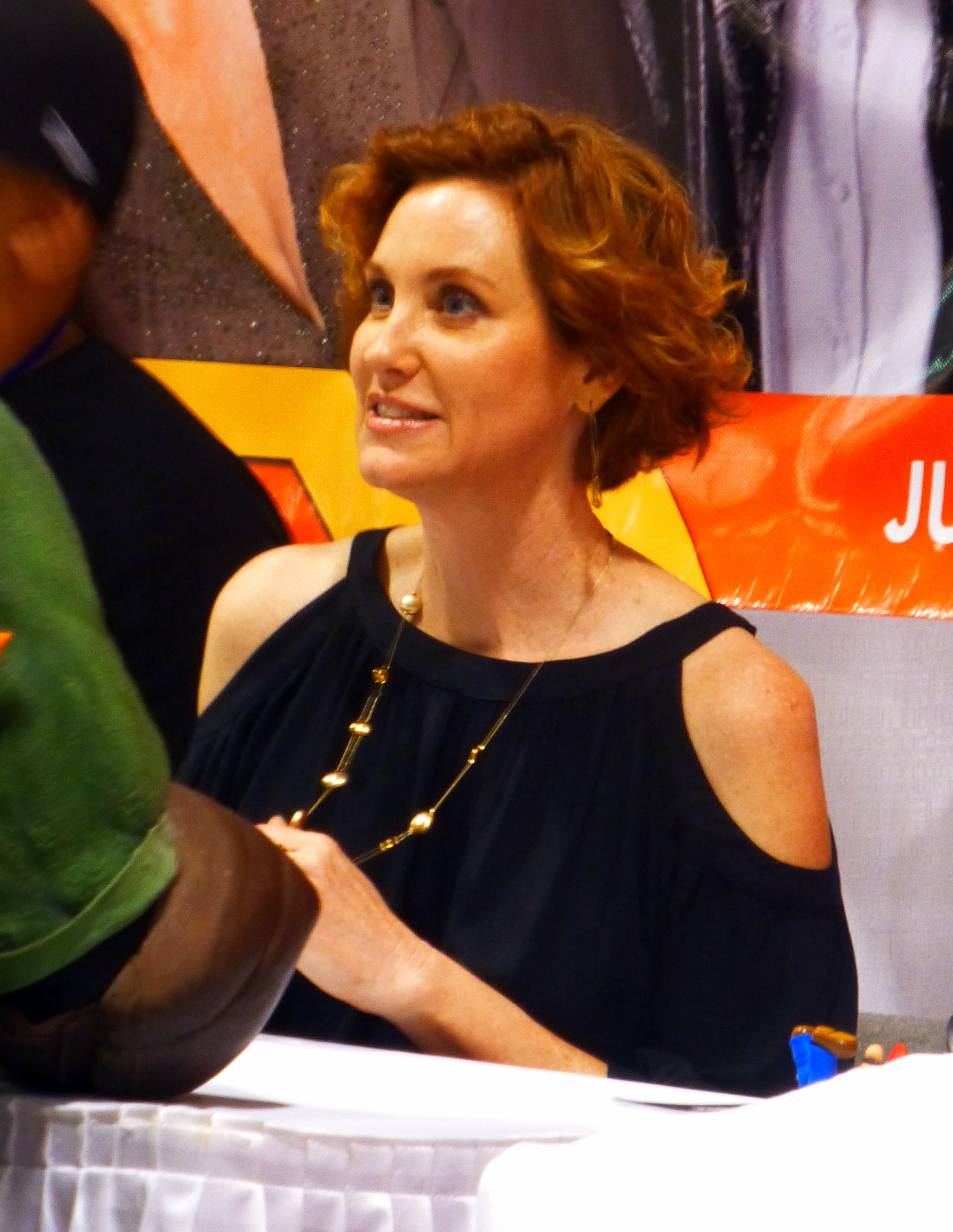 The original April O Neil Motor City Comic Con 2015